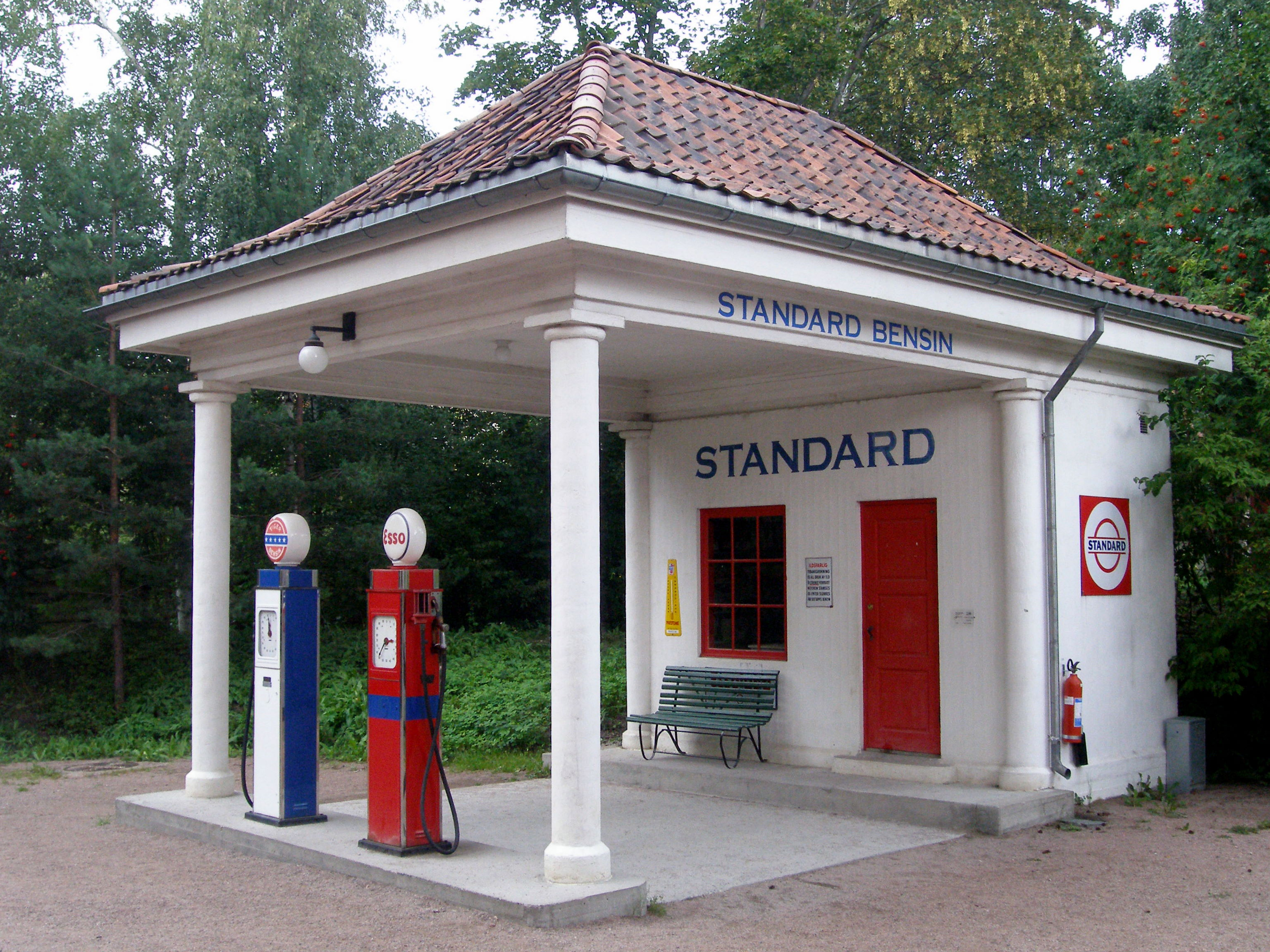 Petrol station (1928) in the Norsk Folkemuseum (Norwegian Museum of Cultural History) in Oslo, Norway.